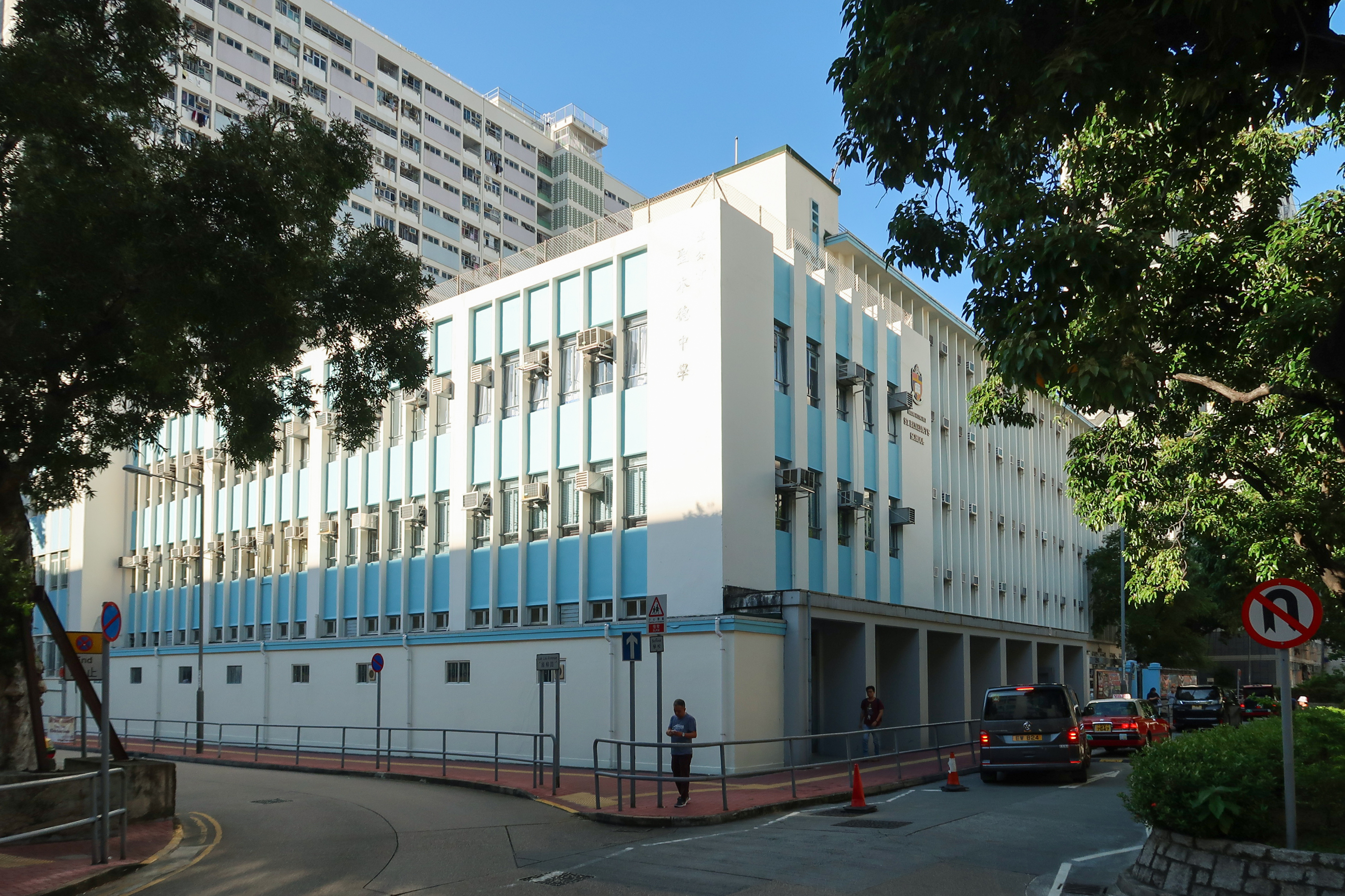 Choi Hung Estate SKH St. Benedict's School